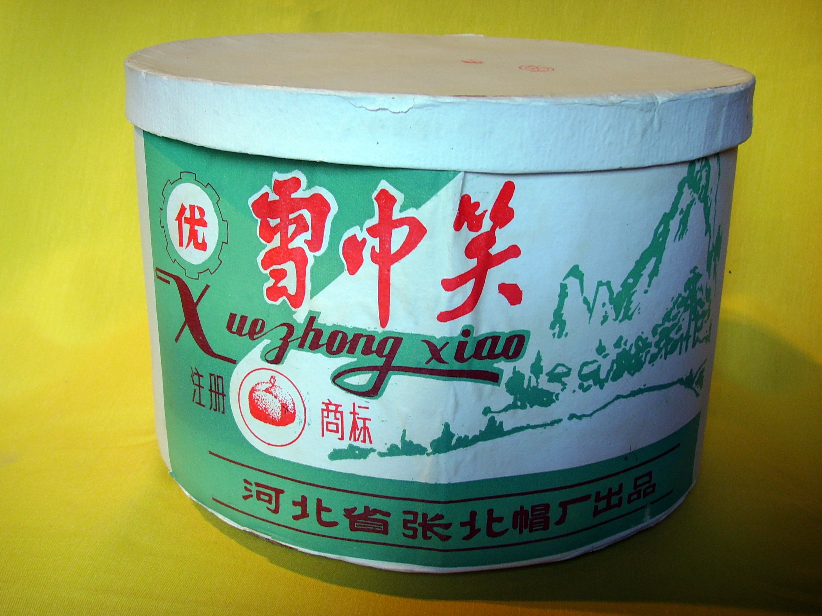 Chinese Hat box